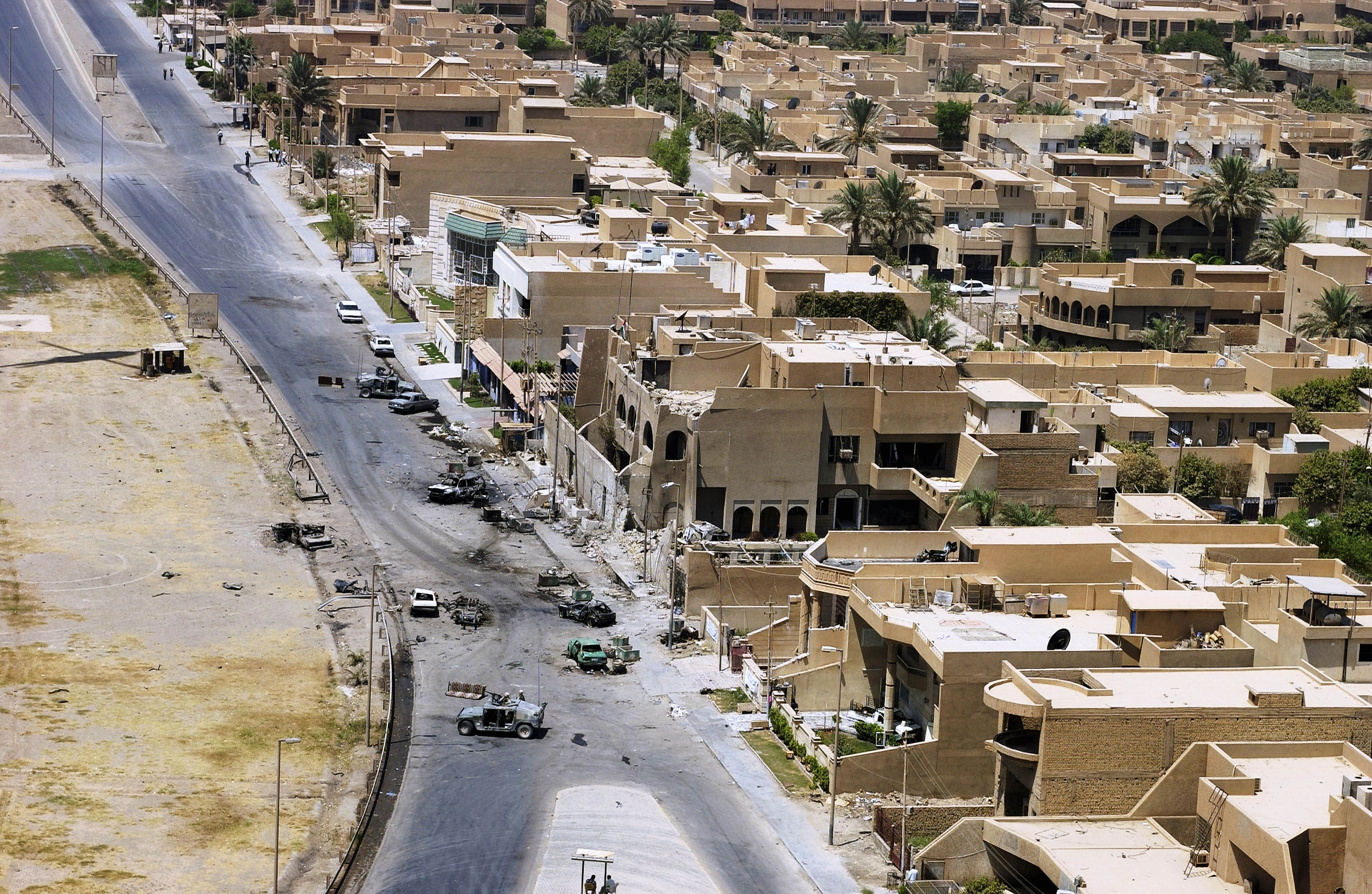 Aerial view showing the right side of the Jordanian Embassy in Baghdad, Iraq, following an attack by insurgents using a car bomb. This photograph was taken in support of Operation IRAQI FREEDOM.